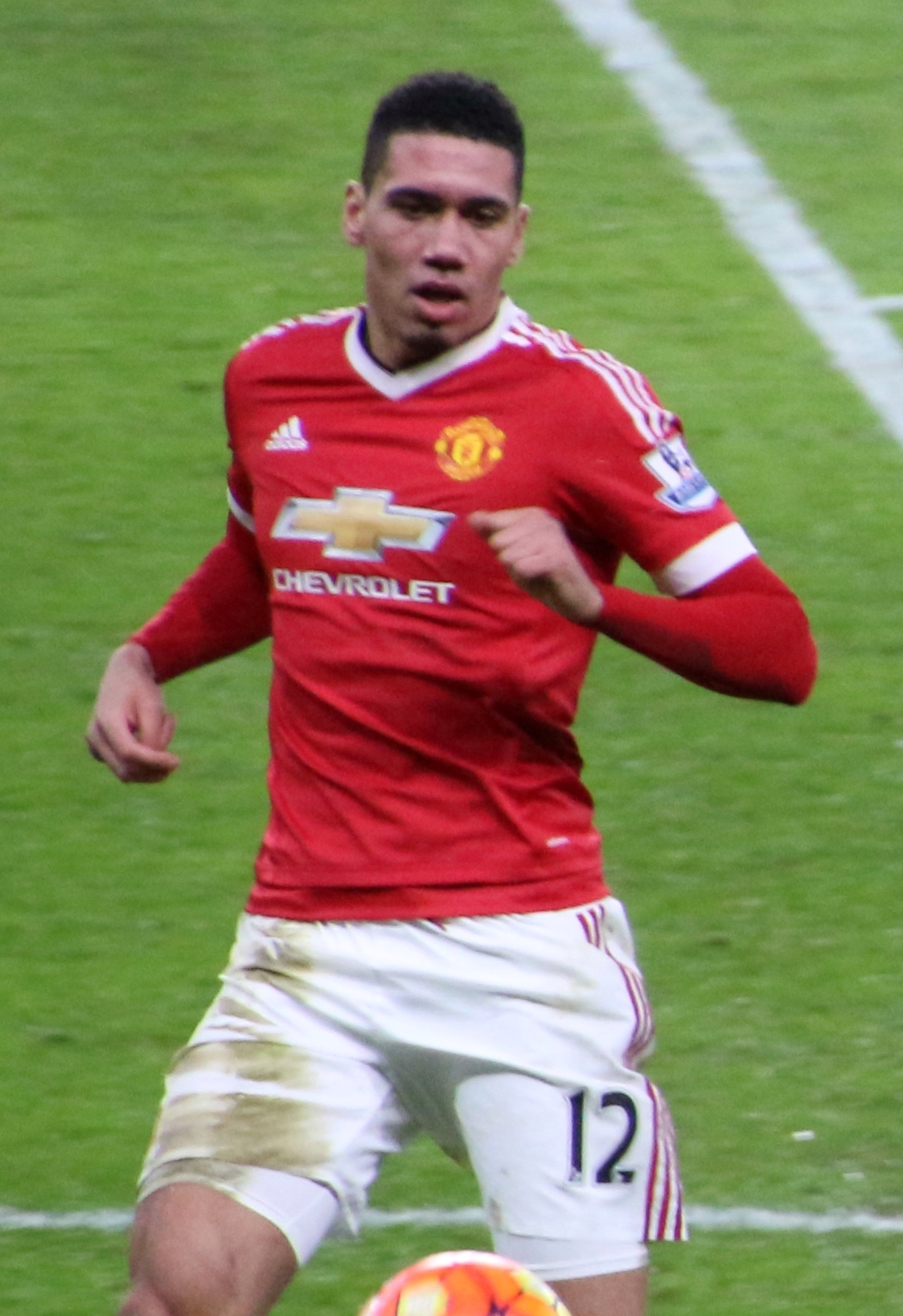 Chris Smalling playing for Manchester United against Chelsea at Stamford Bridge, Fulham on 7 February 2016